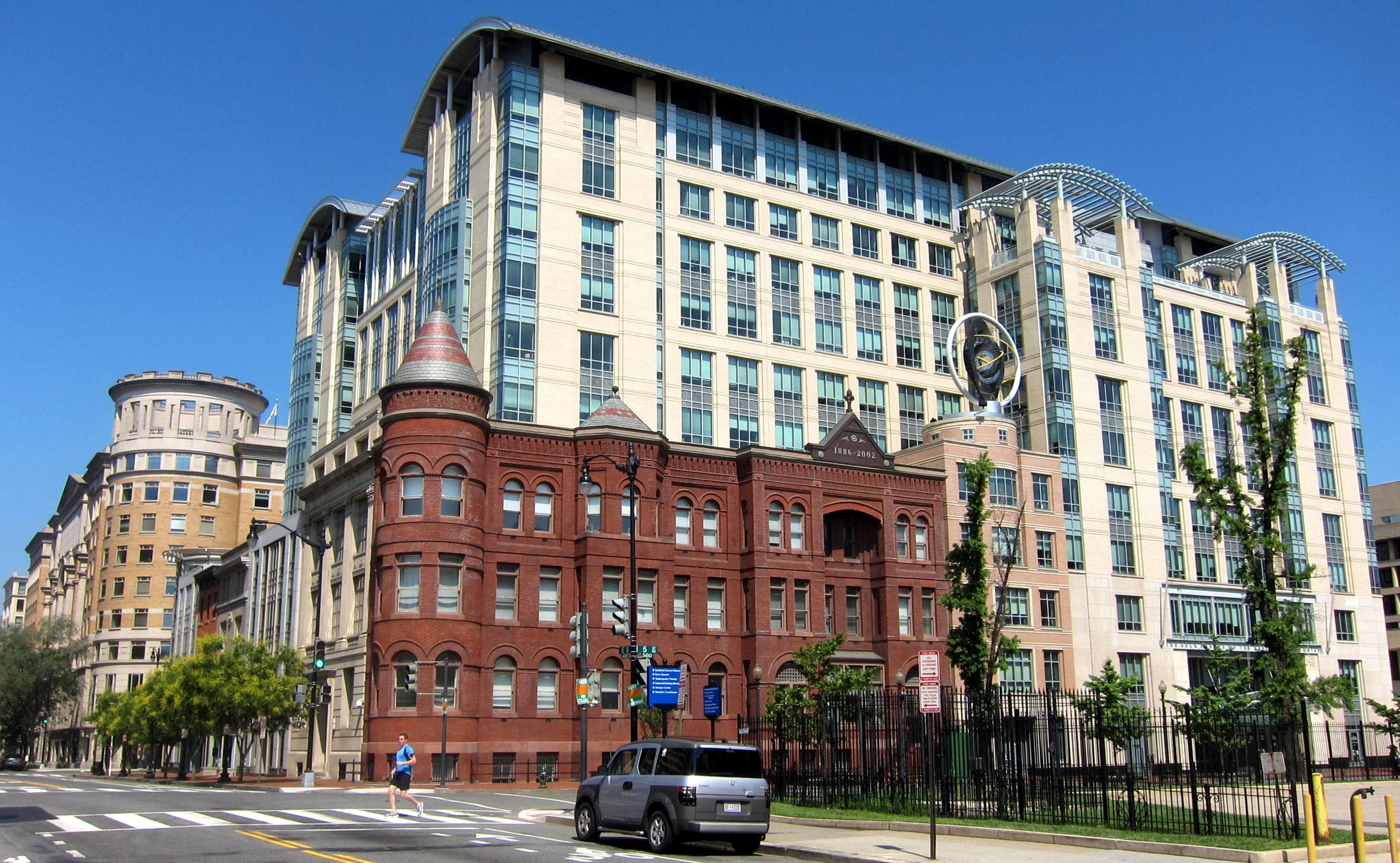 The Keck Center of the National Academies located at 500 5th Street, N.W., in the Judiciary Square neighborhood of Washington, D.C. Built in 2002 to the designs of architectural firm KCF-SHG, Inc., the 11-story, postmodern building houses the Marian Koshland Science Museum and United States National Academy of Sciences headquarters.